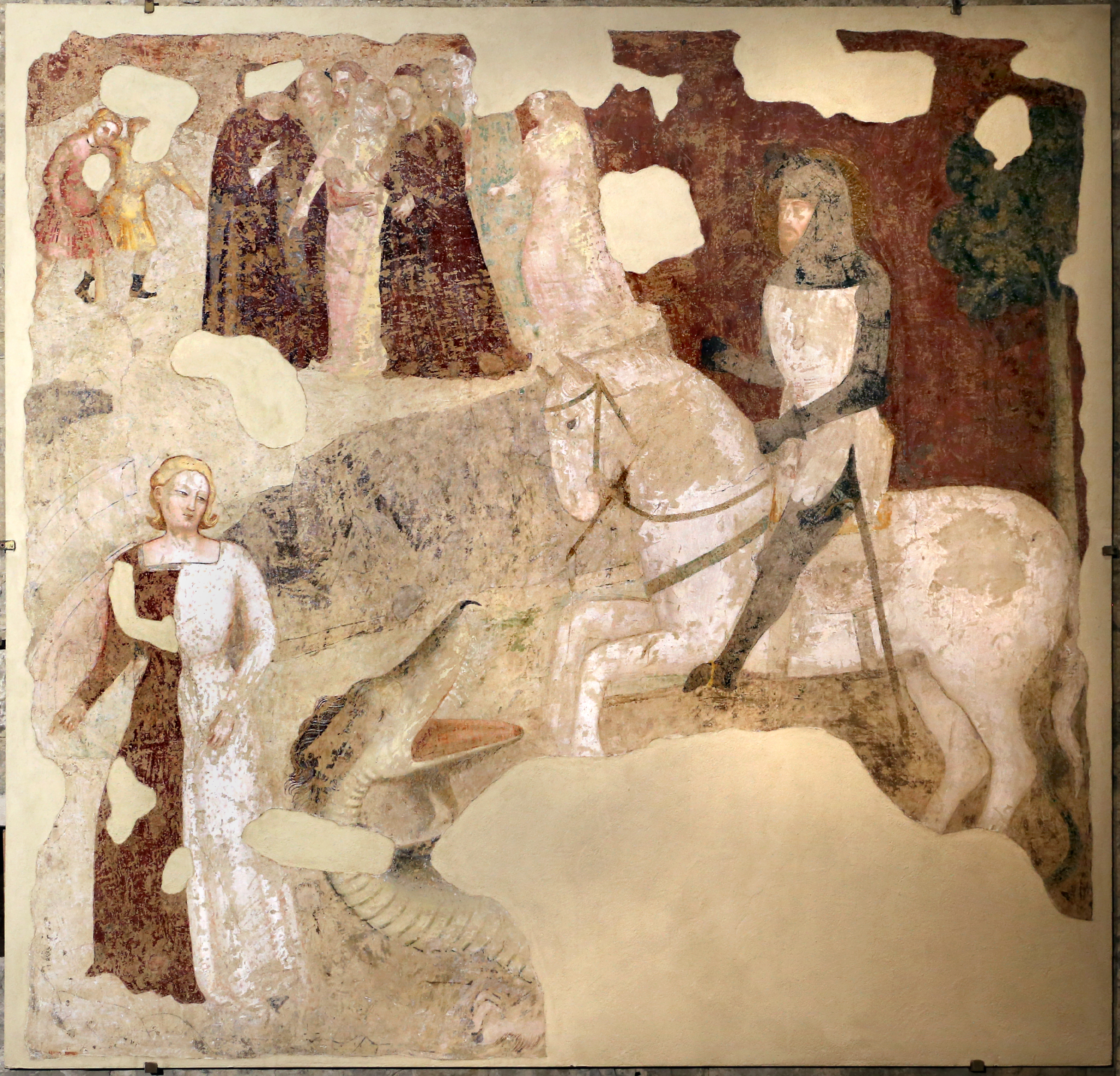 San Donato in Polverosa